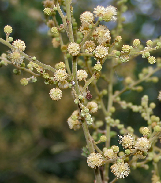 Ronjh, Safed Keekar, White-barked acacia or Nayibela Acacia leucophloea in Hyderabad , India.